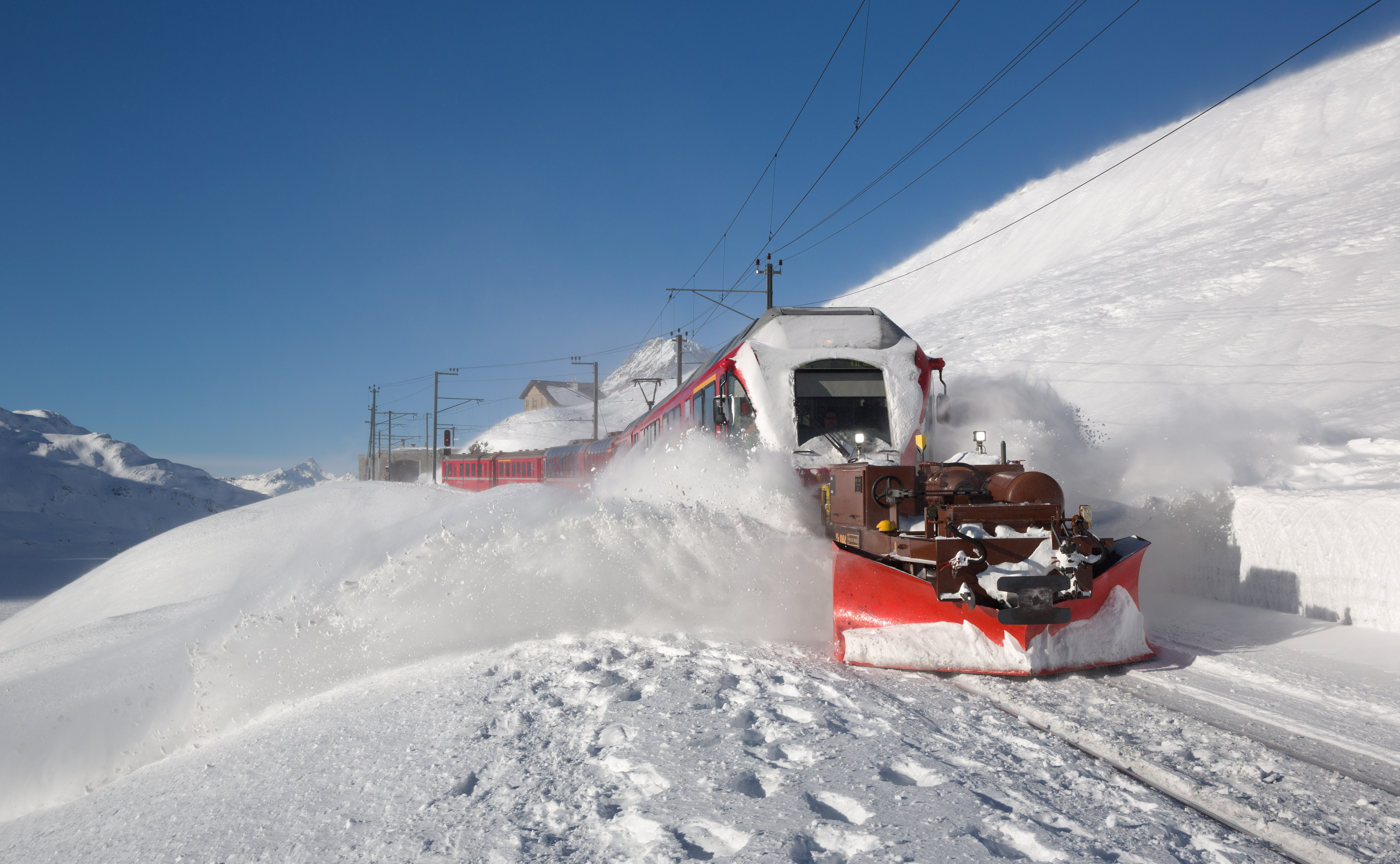 A local train to Tirano, hauled by a RhB ABe 8/12 "Allegra" EMU, pushes a plow (Xk 9144) to clear the snow that has accumulated between the rails. Taken just after Ospizio Bernina, Switzerland.